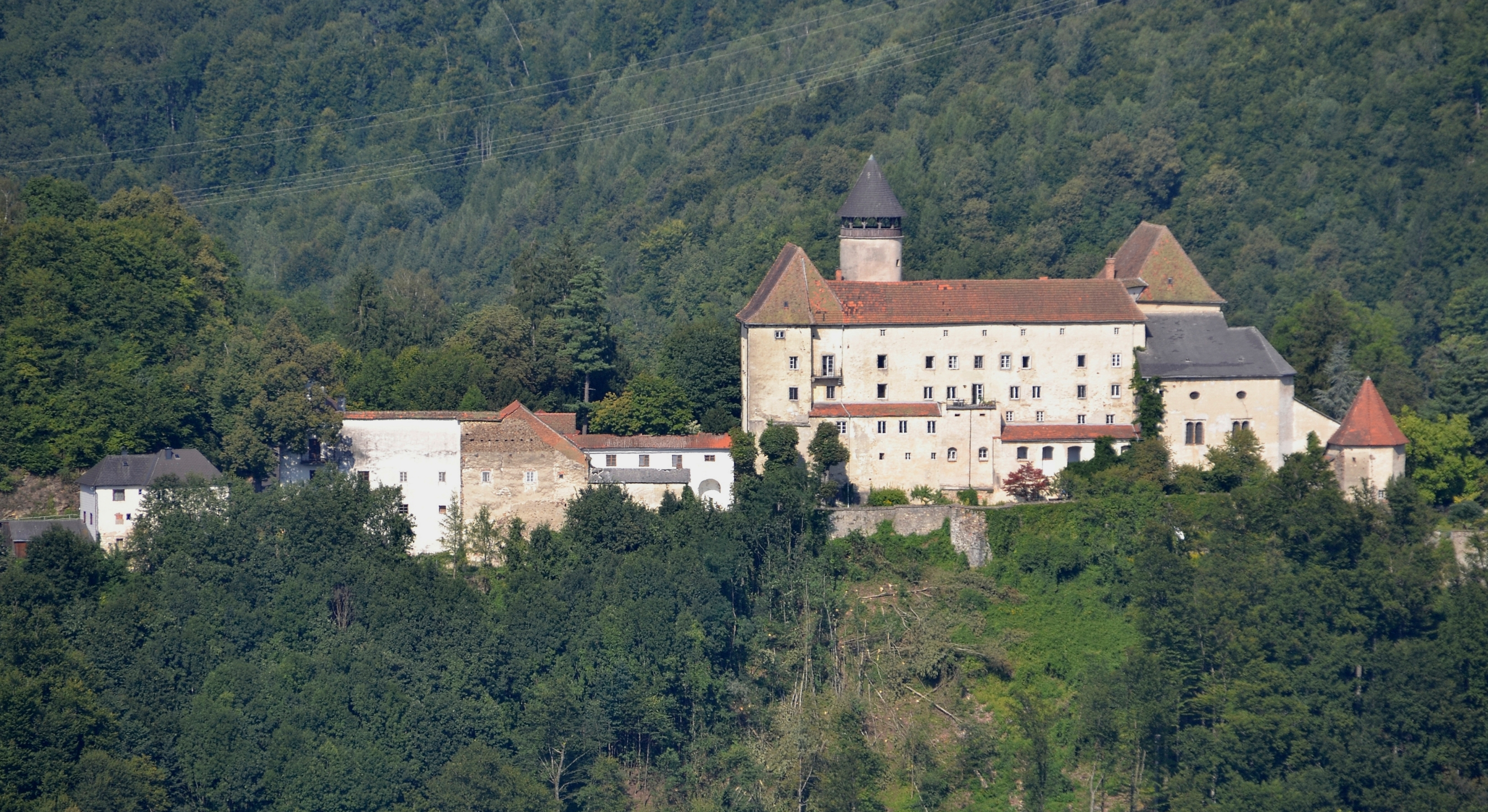 Rannariedl Castle in Rohrbach District, Upper Austria.